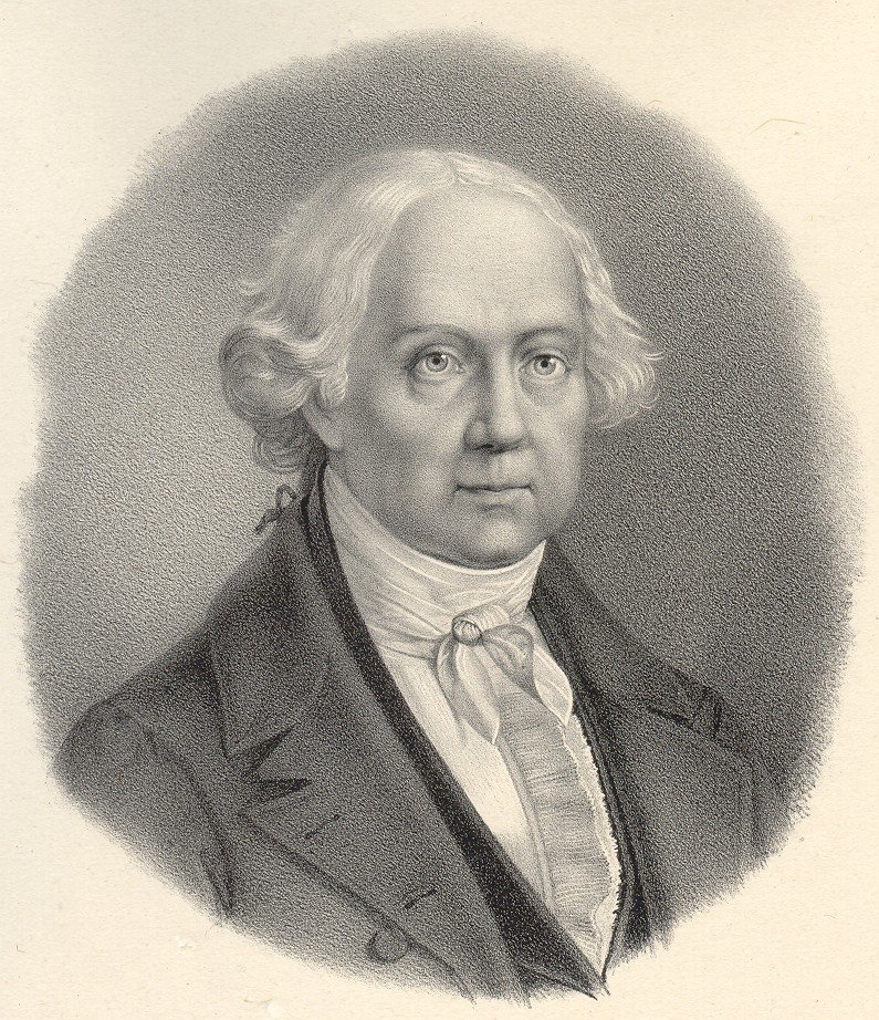 The swiss writer Johann Martin Usteri (1763-1827)